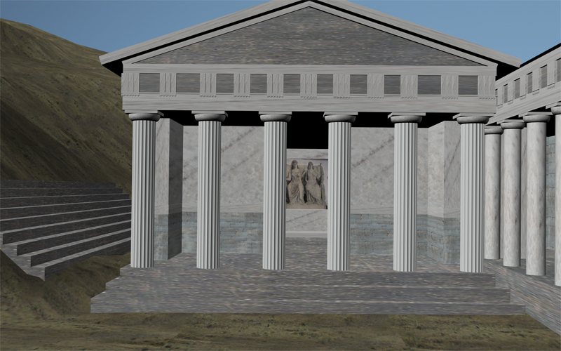 3d reconstructionn of the temple of Despoina at Lycosura